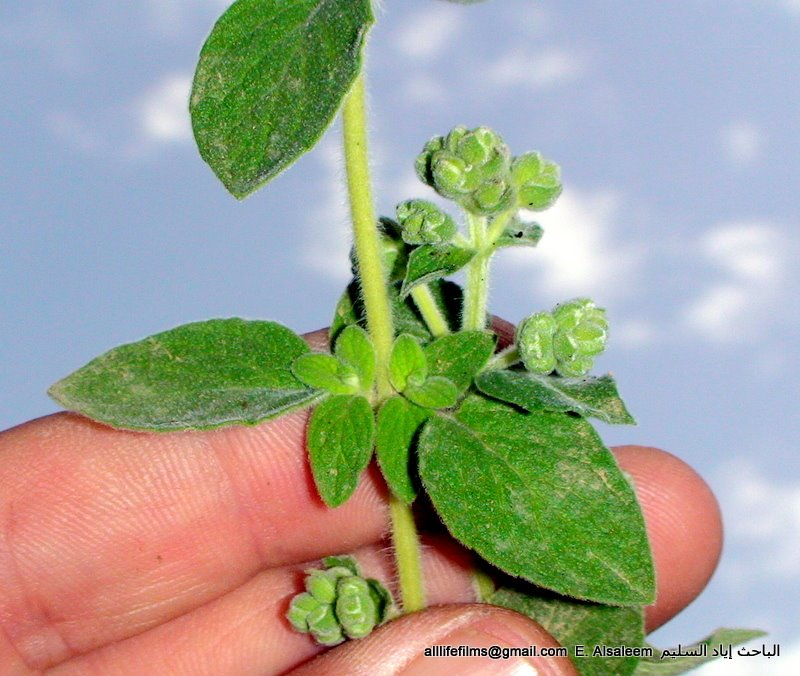 نبات برّي سوري يؤكل